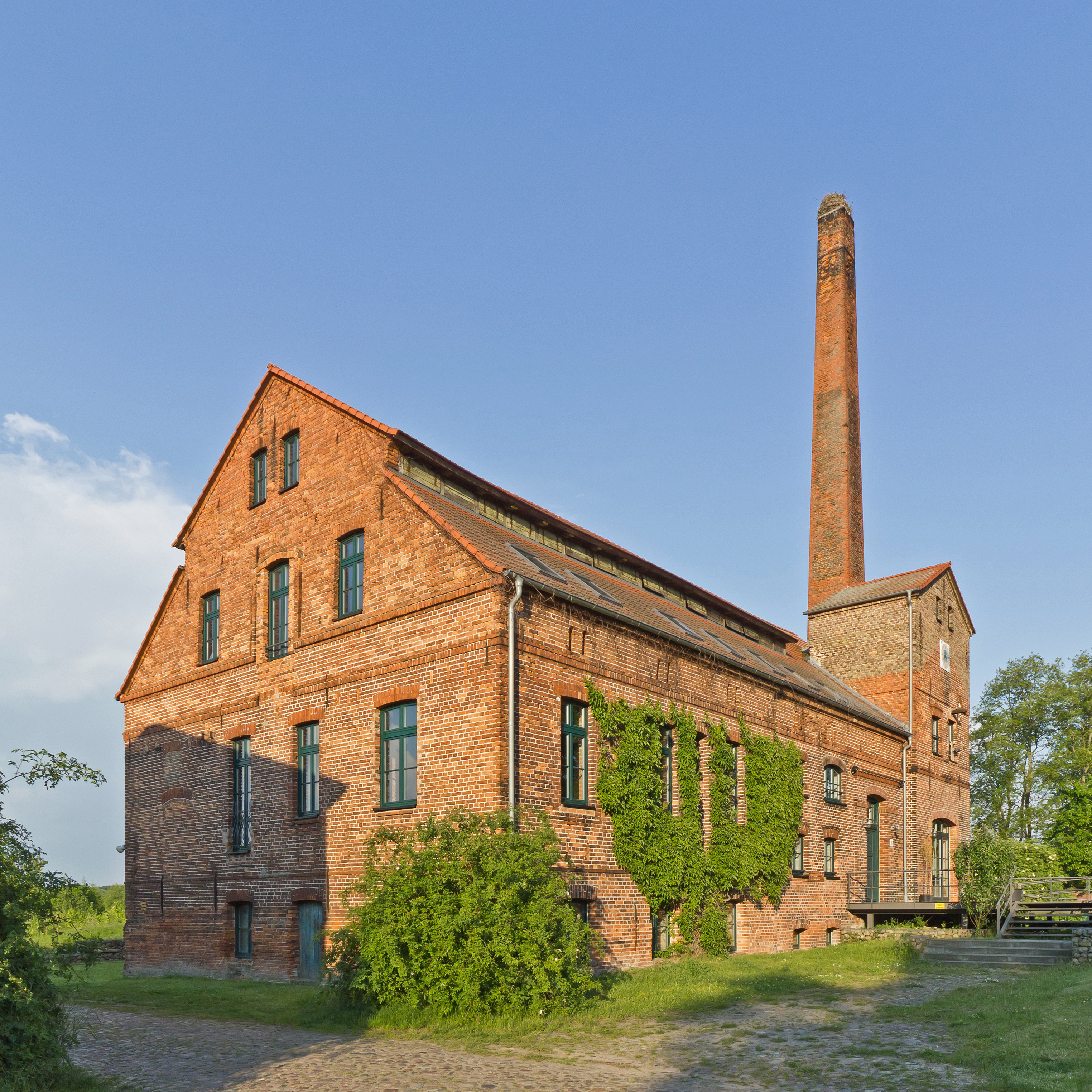 Ribbeck (Nauen), Brandenburg, Germany: former distillery